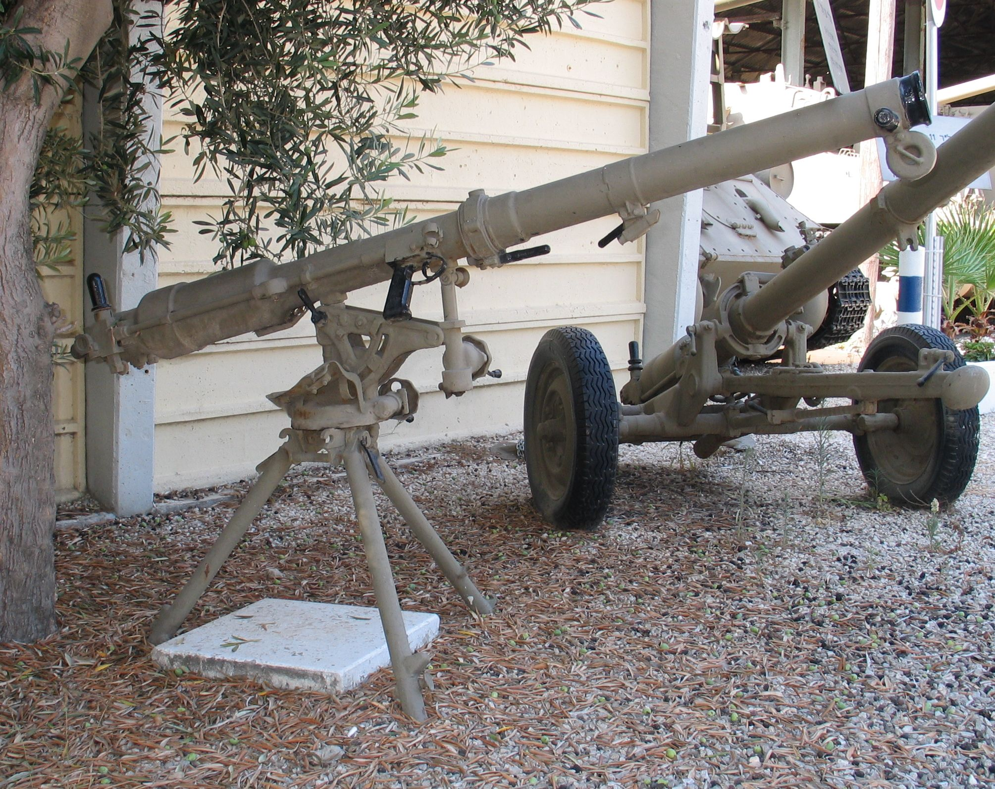 Soviet B-10 recoilless rifle in Batey ha-Osef Museum, Tel Aviv, Israel.